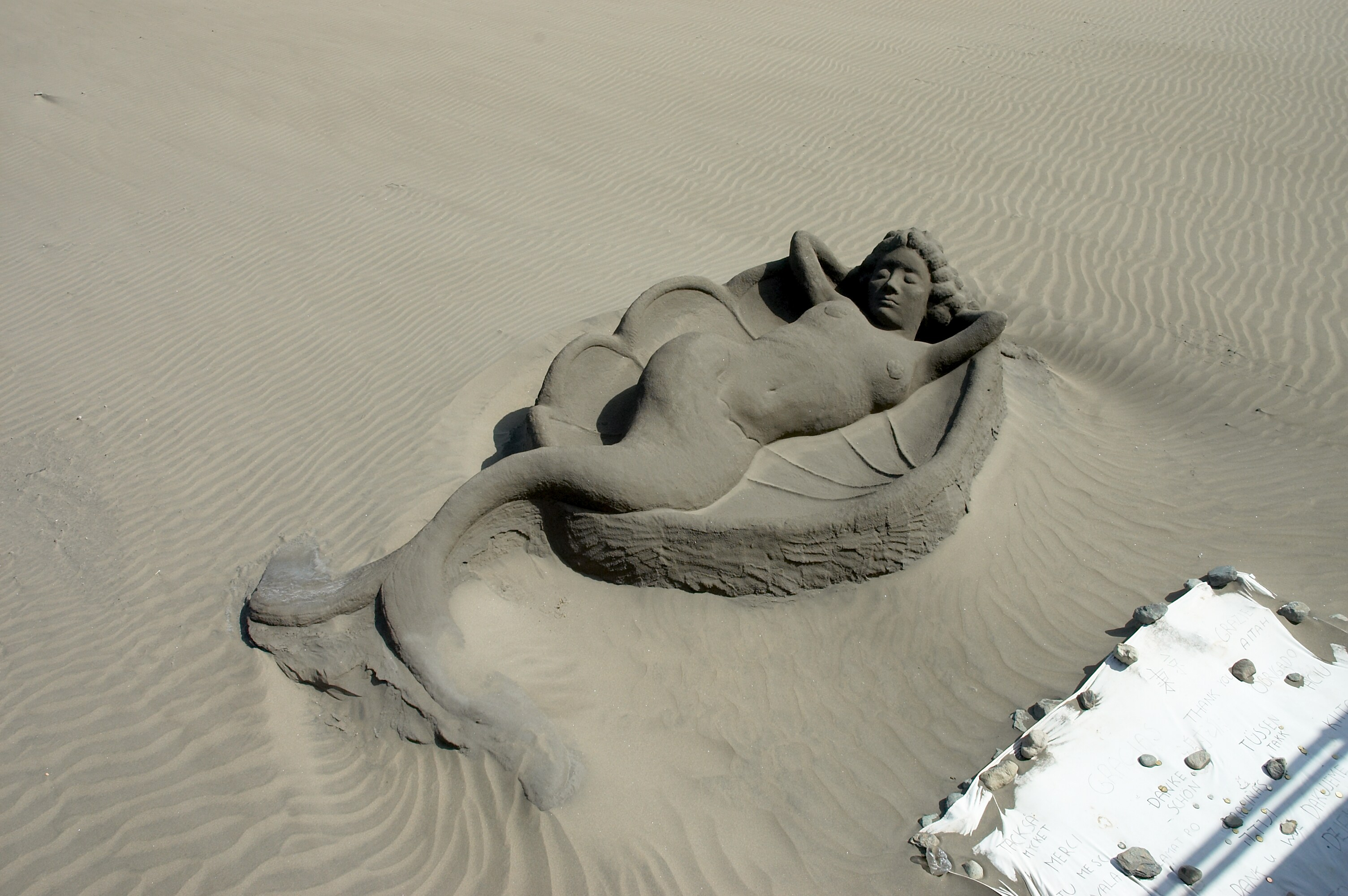 Sand sculpture at the beach in San Agustin. The sheet for throwing the money on and the "thank you"